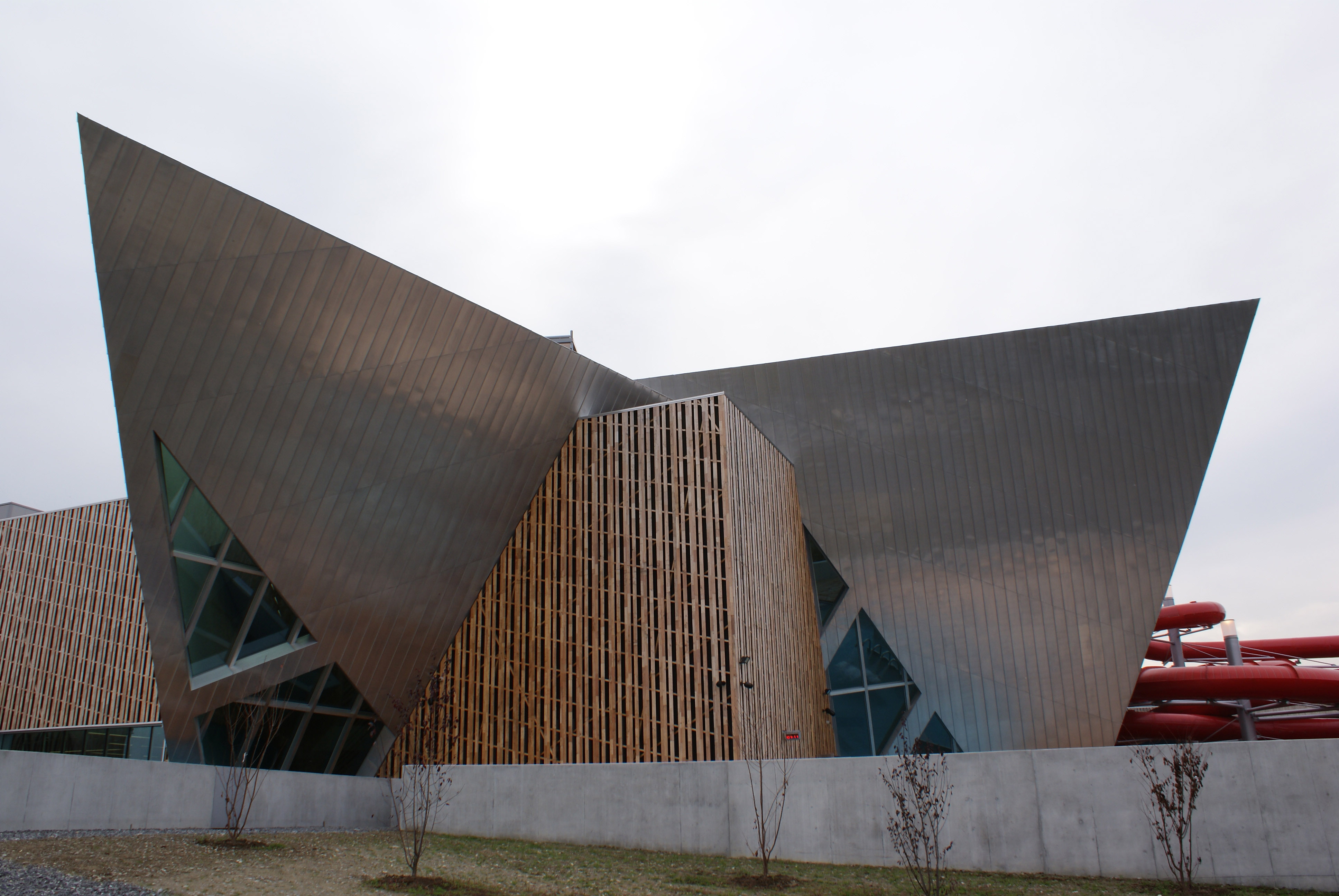 The Westside shopping and leisure complex, in Brünnen, Bern, Switzerland. The building was designed by Daniel Libeskind.